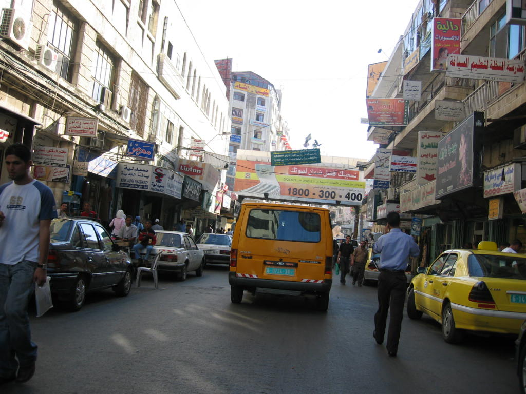 By Ramallite. Market Street in downtown Ramallah.